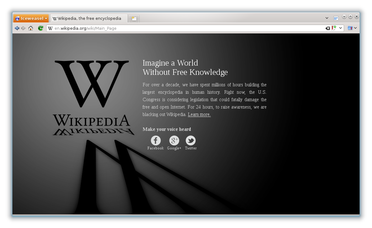 joining anti-SOPA protest on jan 18 2012